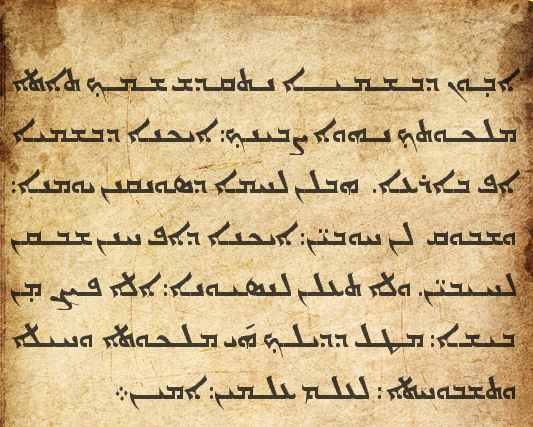 Lords Prayer in Aramaic(Syriac)